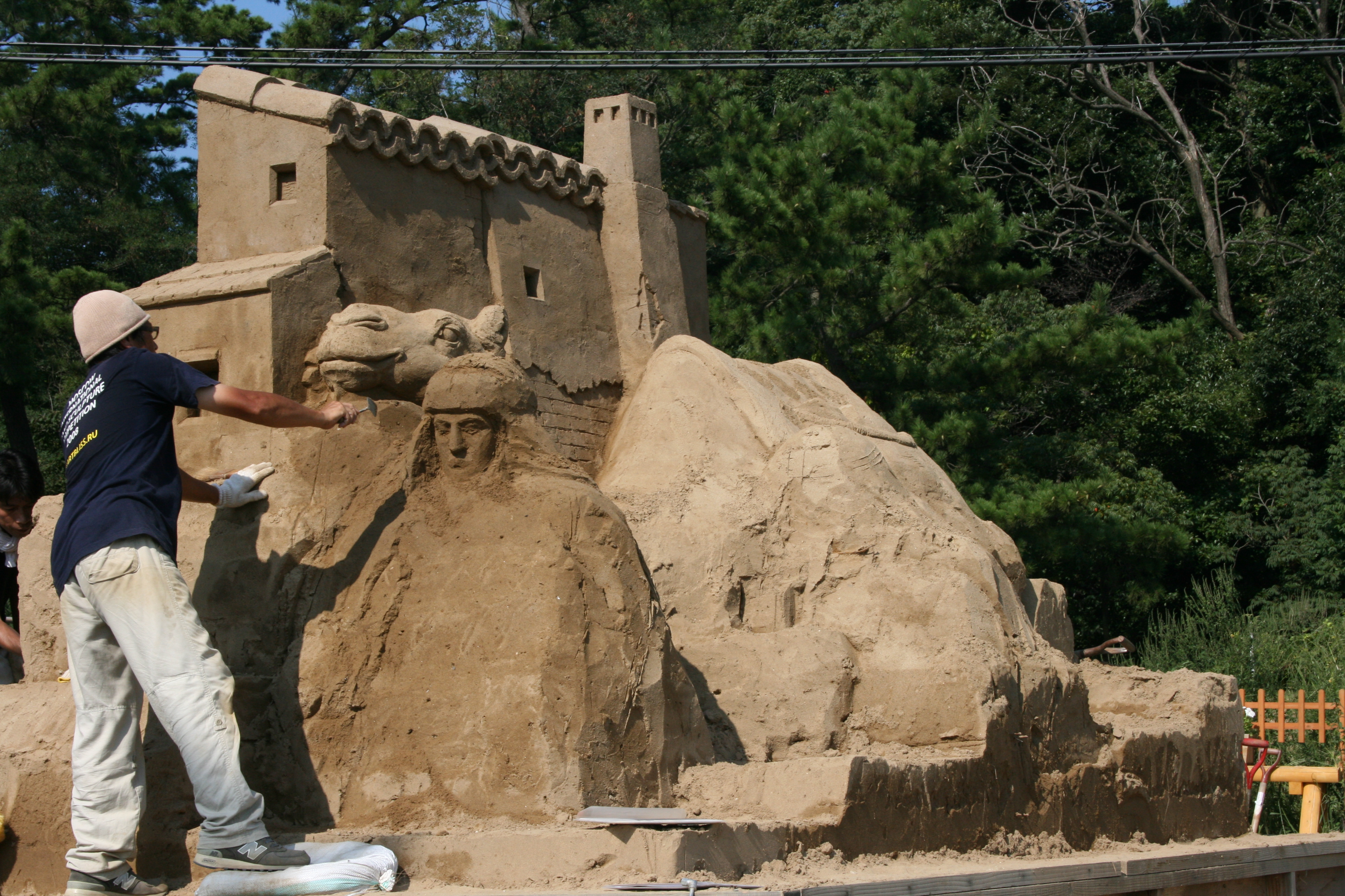 Katsuhiko Tyaen, Tottori Sand Dunes Sand Museum in Tottori, Japan